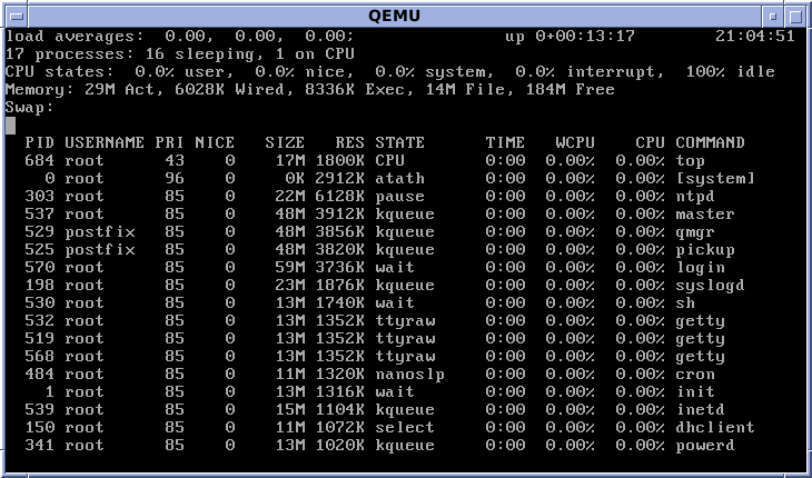 NetBSD 6.1 running the "top" command to monitor system processes. Running in a QEMU VM.